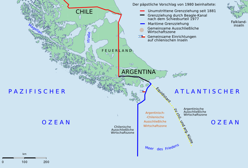 The papal proposal of 1980 regardimg the Beagle Conflict. Legend in German Language